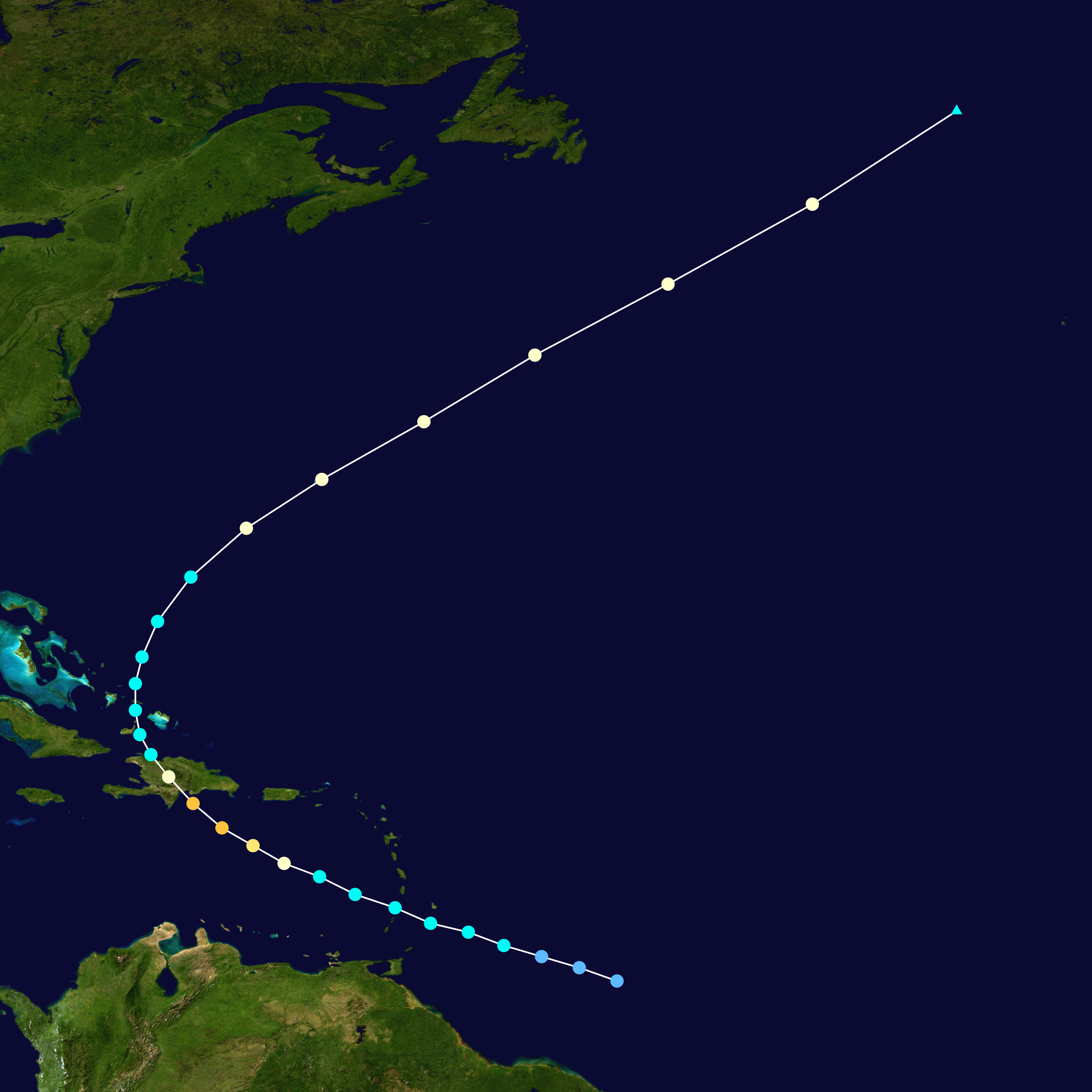 Hurricane Emily (1987) track. Uses the color scheme from the Saffir-Simpson Hurricane Scale.